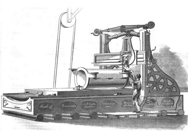 A. B. Latta's mammoth planing lathe